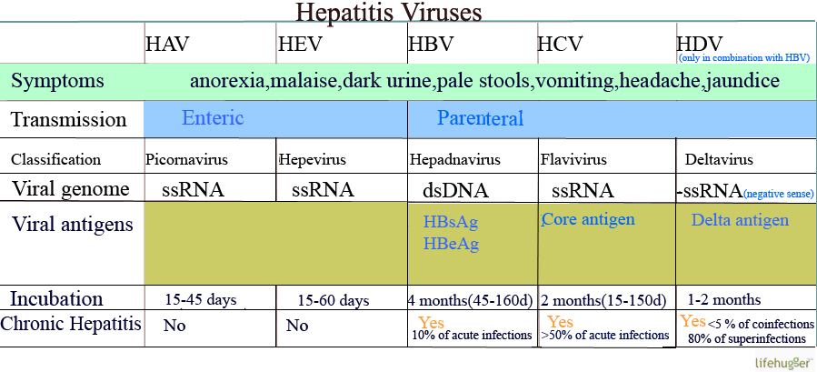 Hepatitis viruses A,E,B,C,D.Virus family,transmission,viral antigens,incubation,chance for chronic infection.